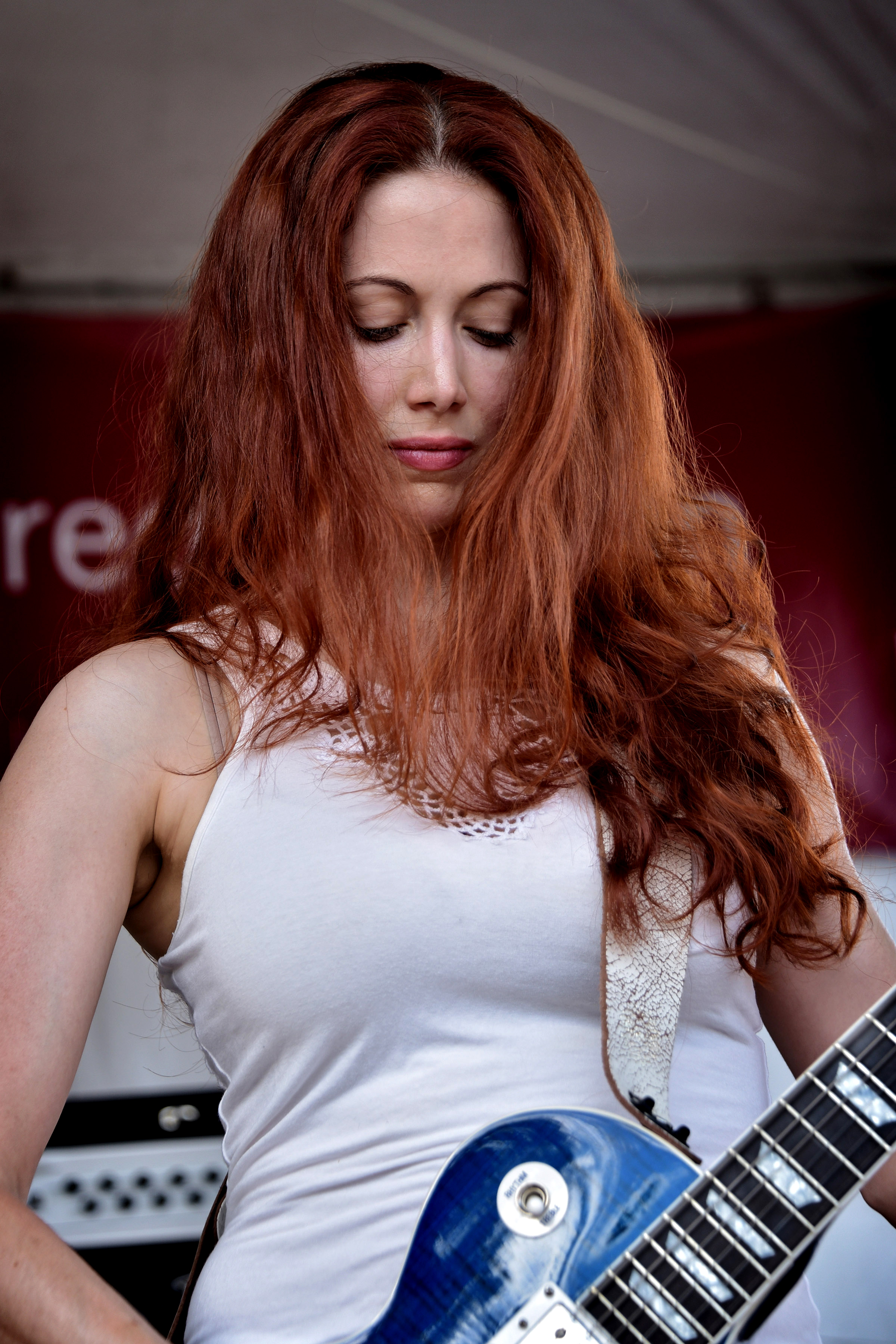 Gretchen Menn performing with Zepparella at Menlo Summerfest 2017